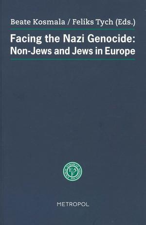 Book cover of Beate Kosmala and Feliks Tych (eds.): "Facing the Nazi genocide" (Metropol, 2004).